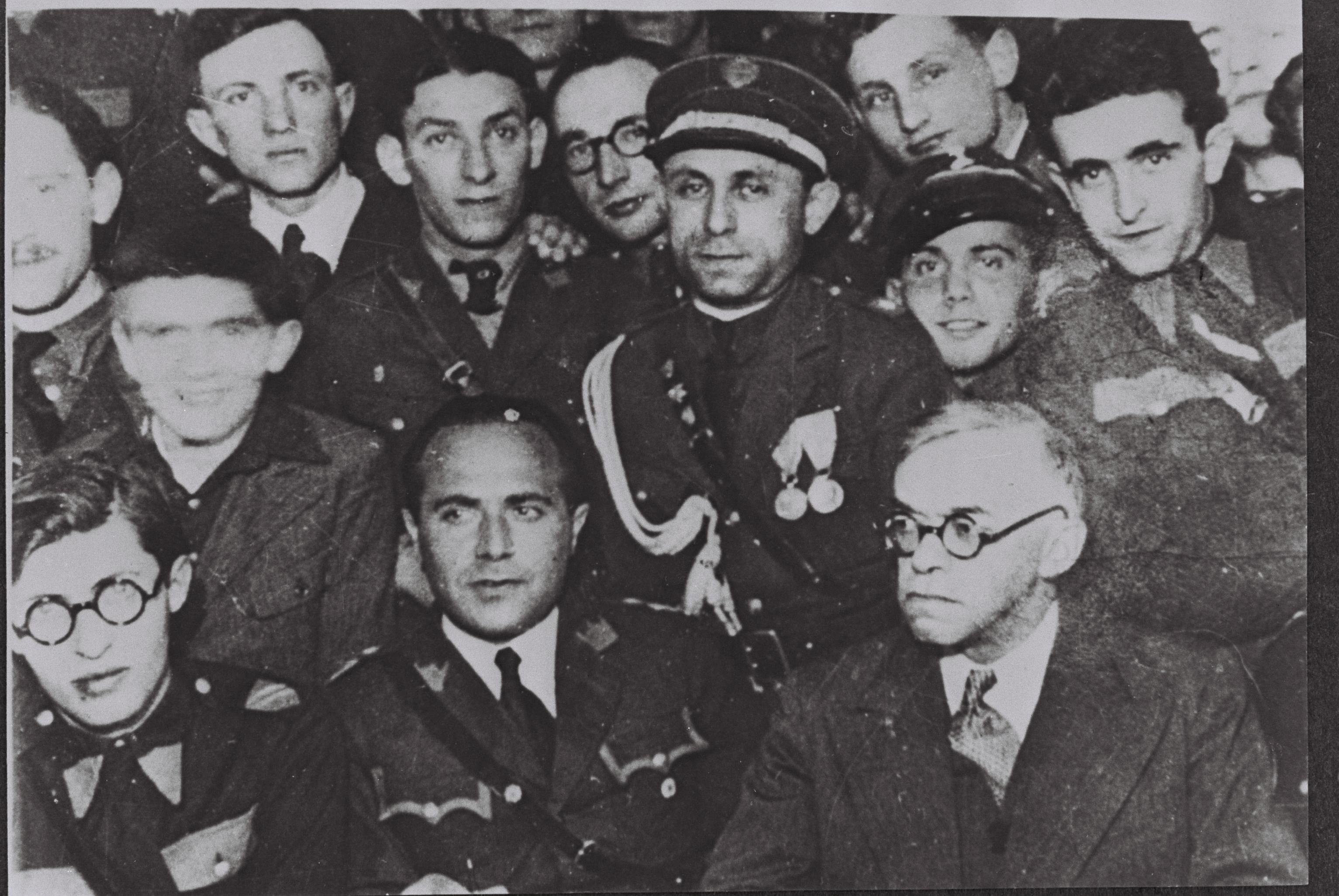 ZEEV JABOTINSKY (BOTTOM R) MEETING WITH BETAR LEADERS IN WARSAW. BOTTOM LEFT MENAHEM BEGIN. זאב ז'בוטינסקי נפגש עם מנהיגי בית"ר בורשה, פולין. משמאל למטה, מנחם בגין.